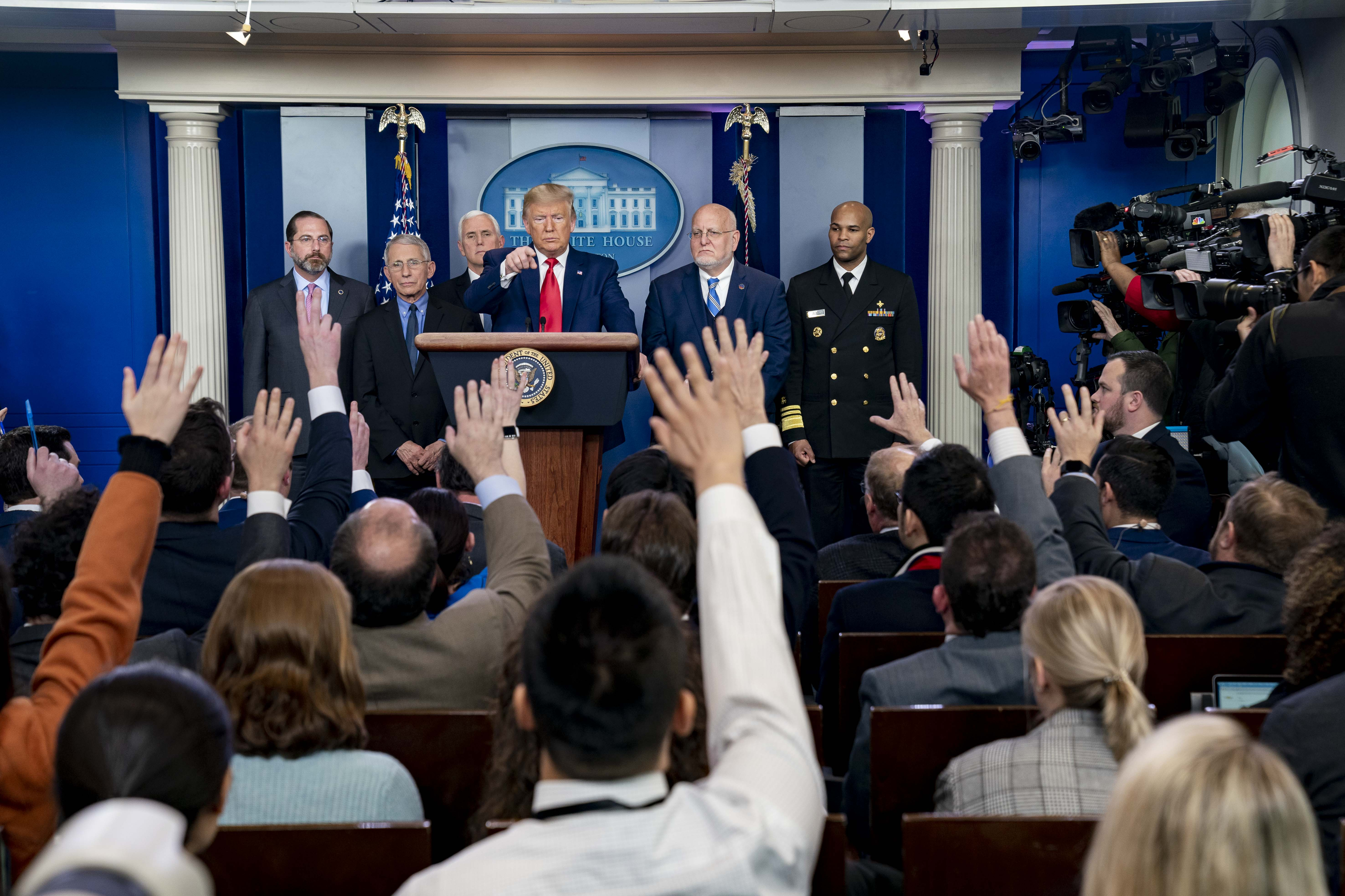 President Donald J. Trump, joined by Vice President Mike Pence, takes questions from reporters during a Coronavirus Task Force update Saturday, Feb. 29, 2020, in the James S. Brady Press Briefing Room of the White House. (Official White House Photo D. Myles Cullen)